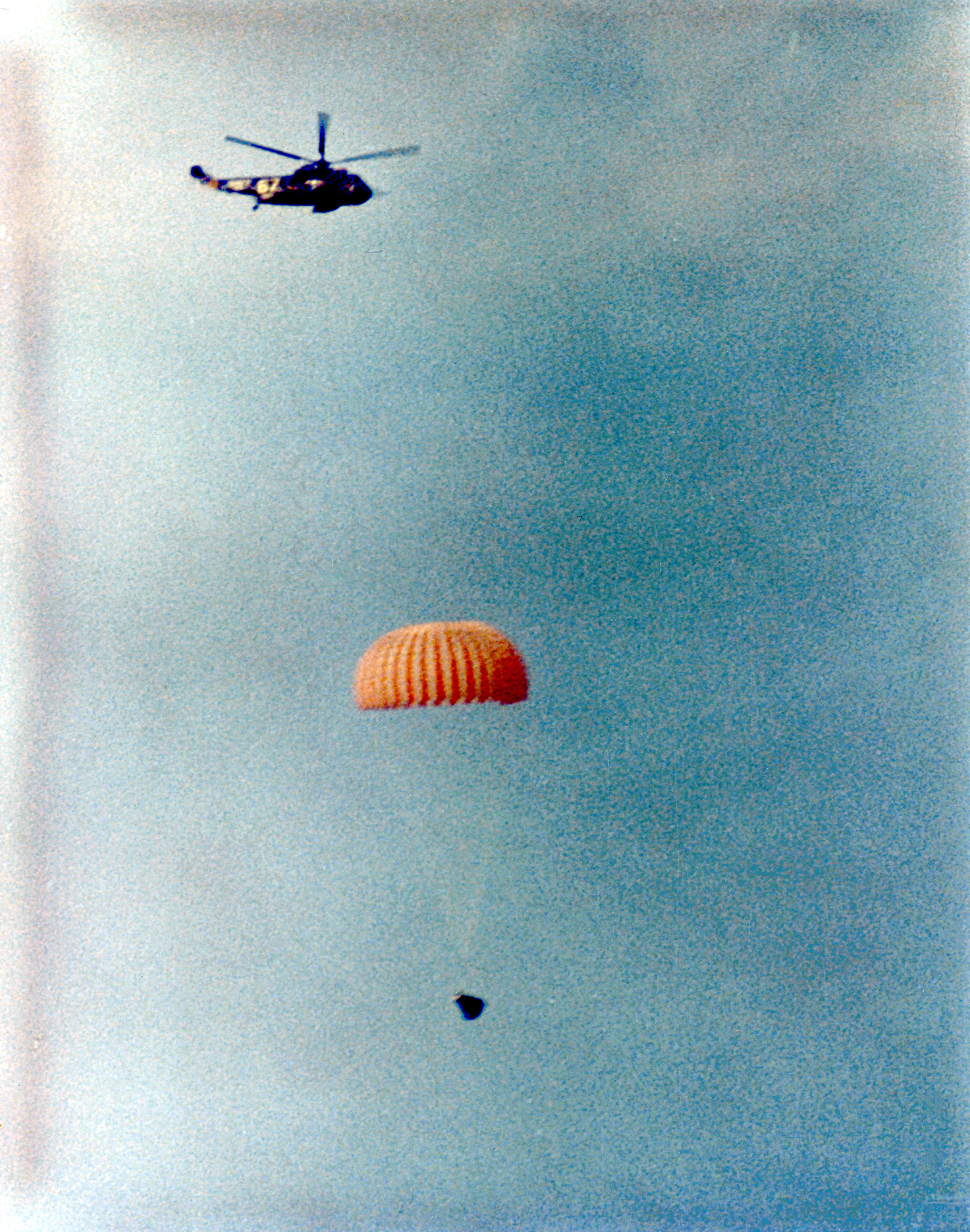 As a Sikorsky SH-3A Sea King from Helicopter Anti-Submarine Squadron 11 (HS-11) hovers above, the Gemini 12 spacecraft with parachute open descends to the Atlantic with astronauts Jim Lovell and Edwin "Buzz" Aldrin aboard. HS-11 was assigned to Carrier Anti-Submarine Air Group 52 (CVSG-52) aboard the aircraft carrier USS Wasp (CVS-18) for the recovery of Gemini 12.